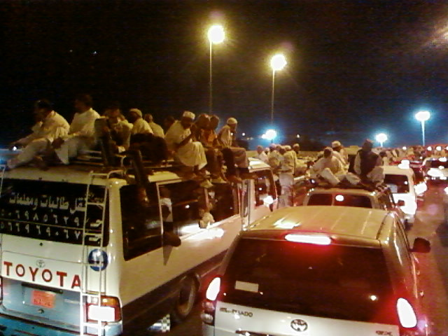 To mina